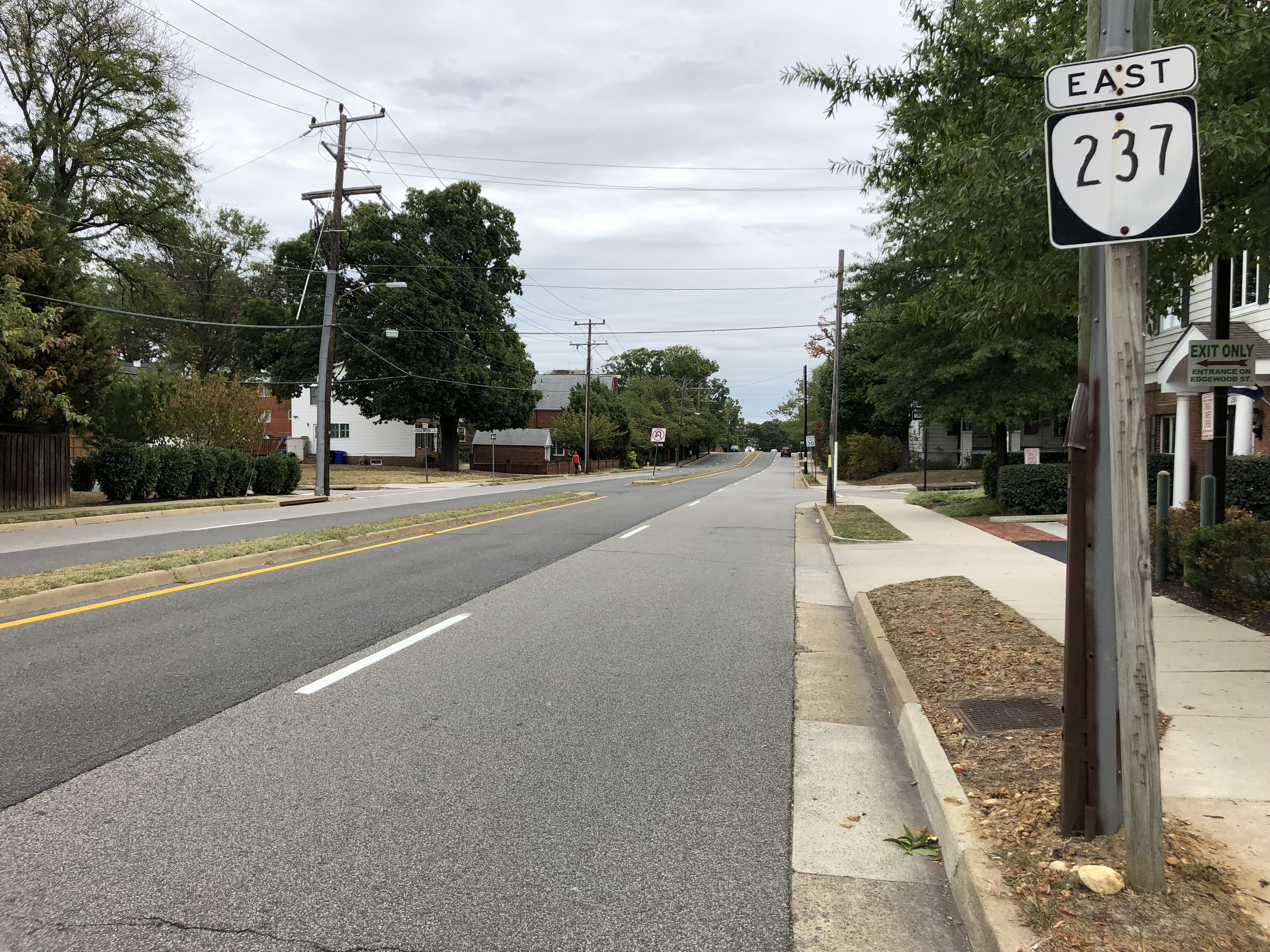 View east along Virginia State Route 237 (10th Street) between Washington Boulevard and Edgewood Street in Arlington County, Virginia